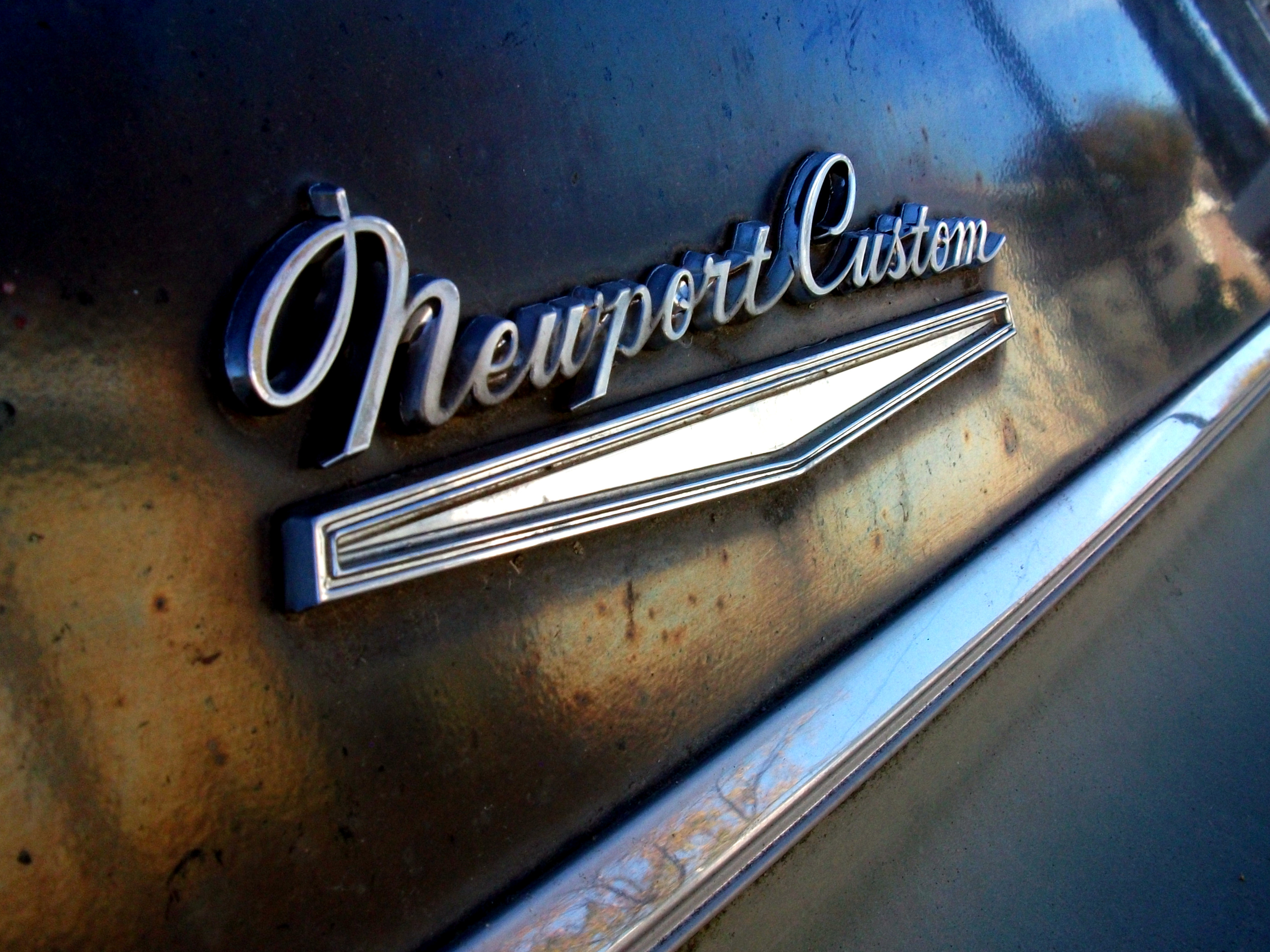 Chrysler Newport Custom